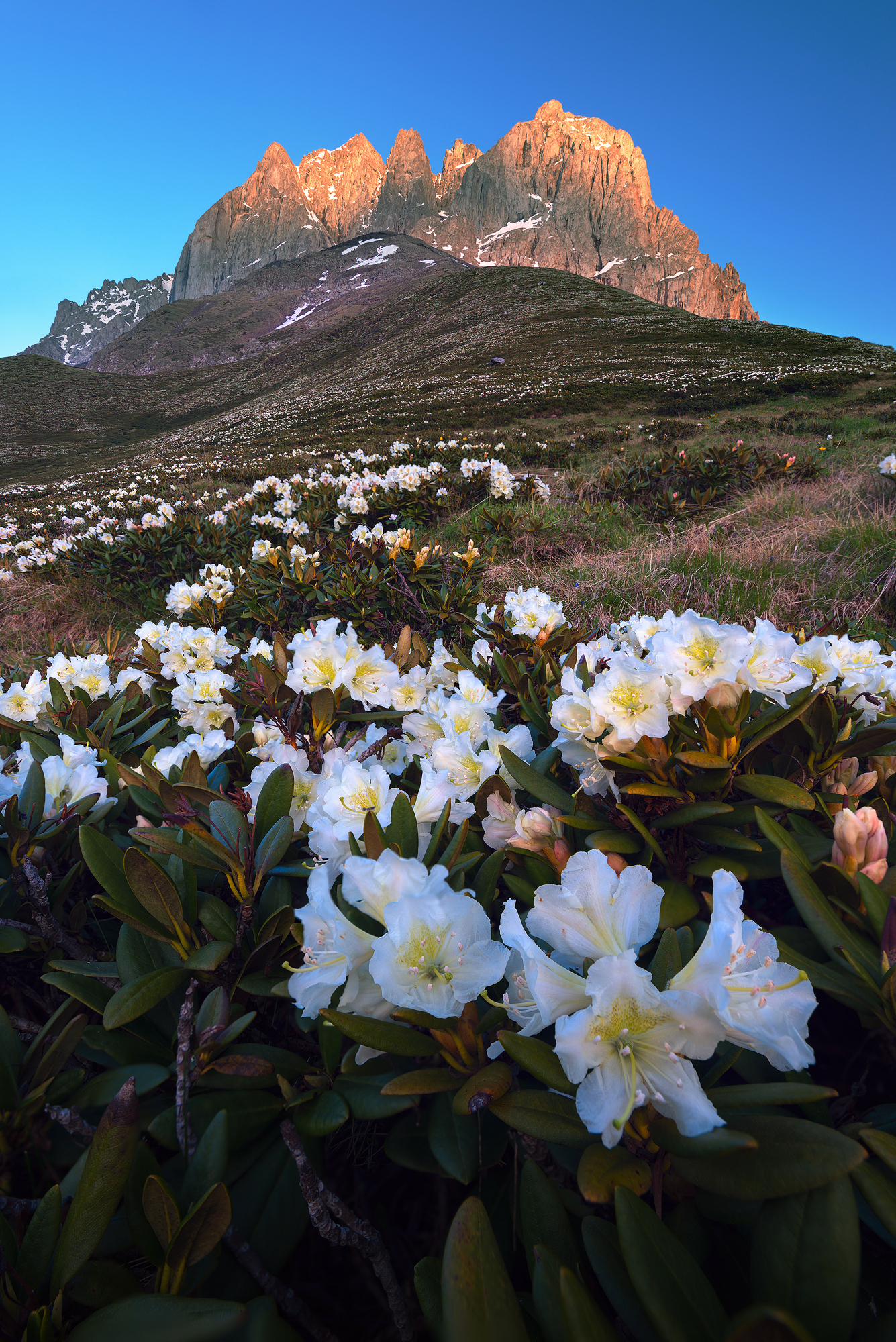 Rhododendron flowers on background of Chaukhi Mountain. Kazbegi National Park. WDPA nubmer: 555549410